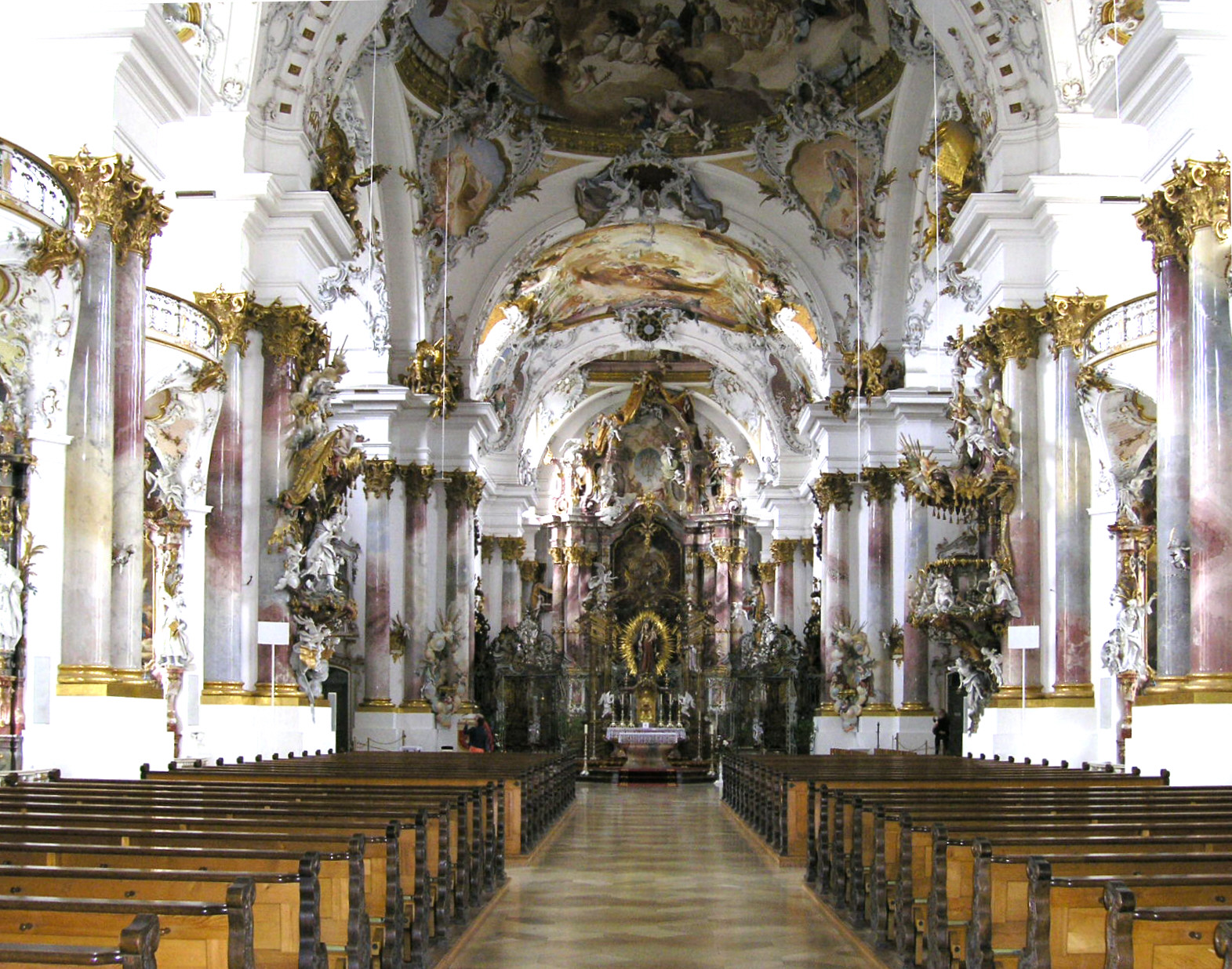 Monastery church of Zwiefalten/Germany